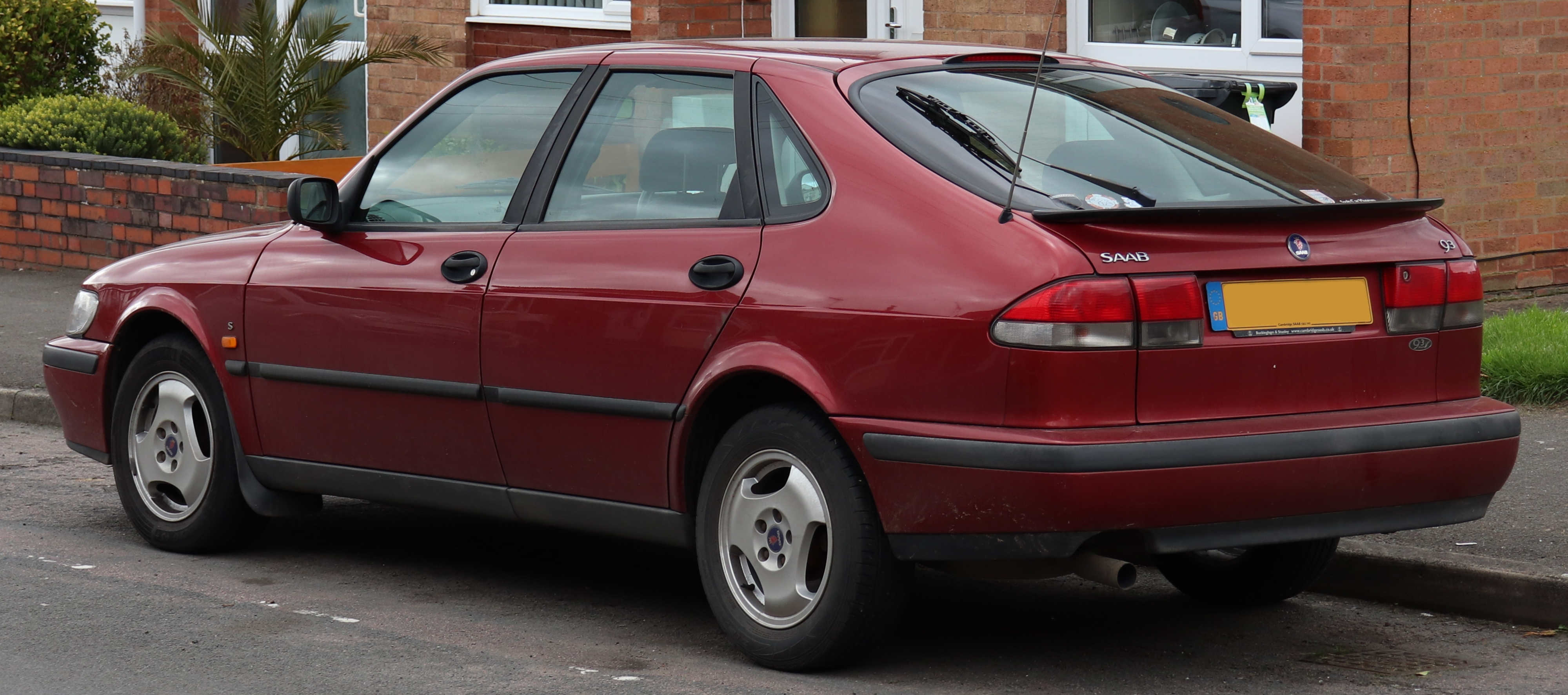 1999 Saab 9-3 S 2.0 Rear Taken in Warwick